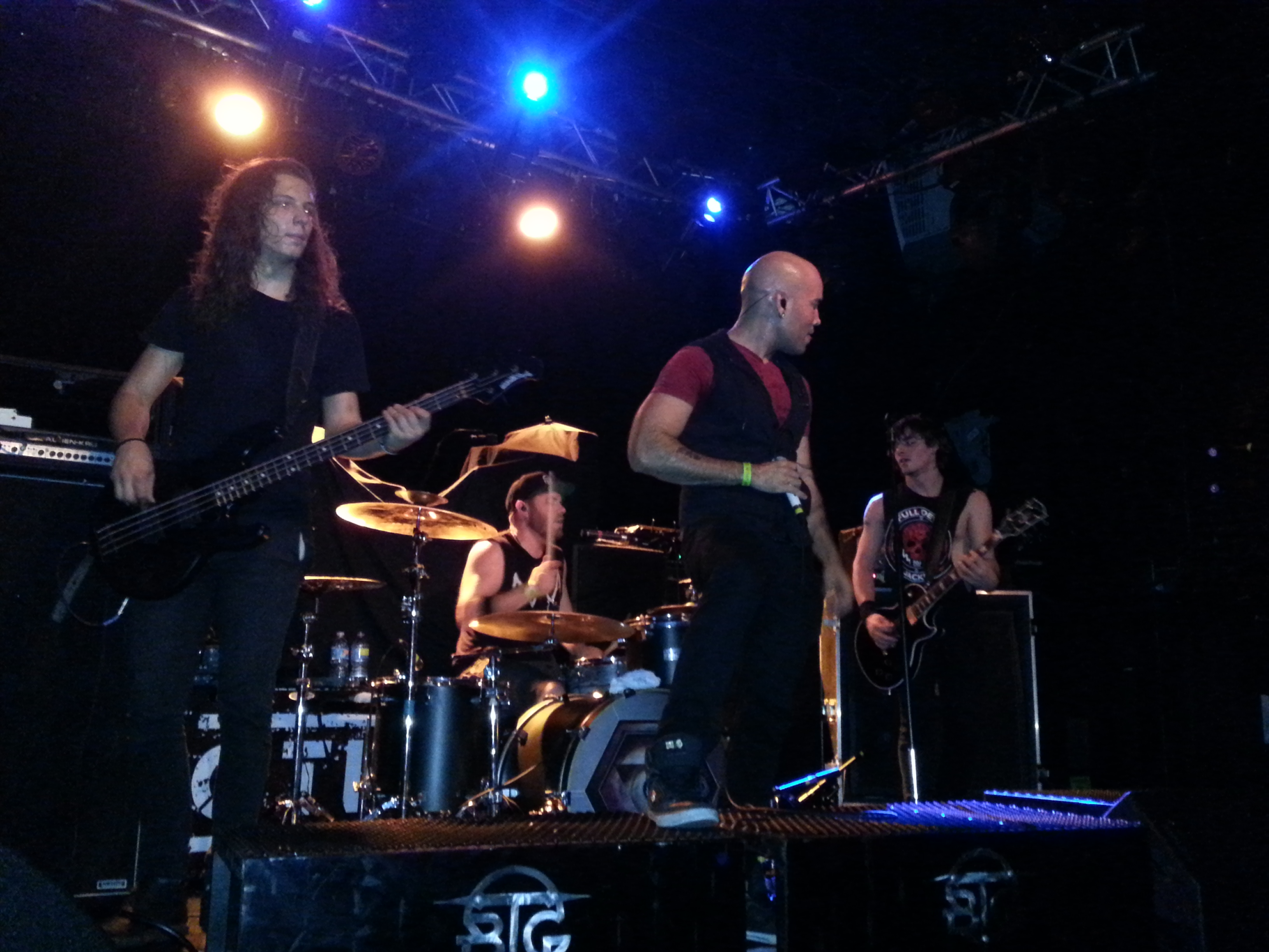 Bridge to Grace performing in 2015